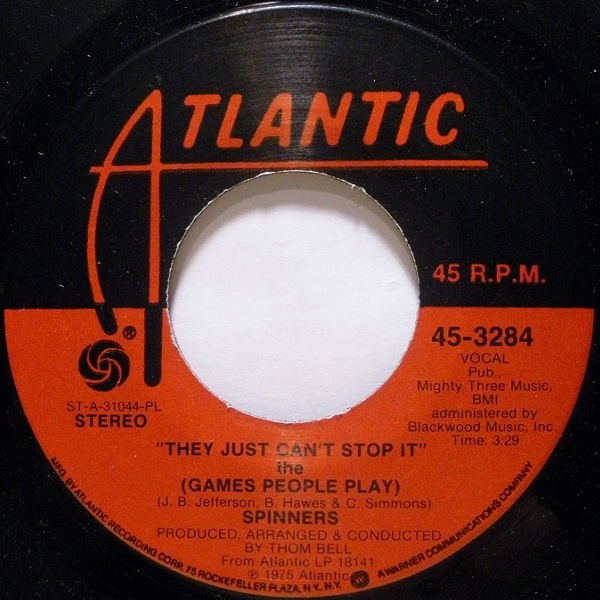 This is a picture of my 45 label of the Spinners "Games People Play".